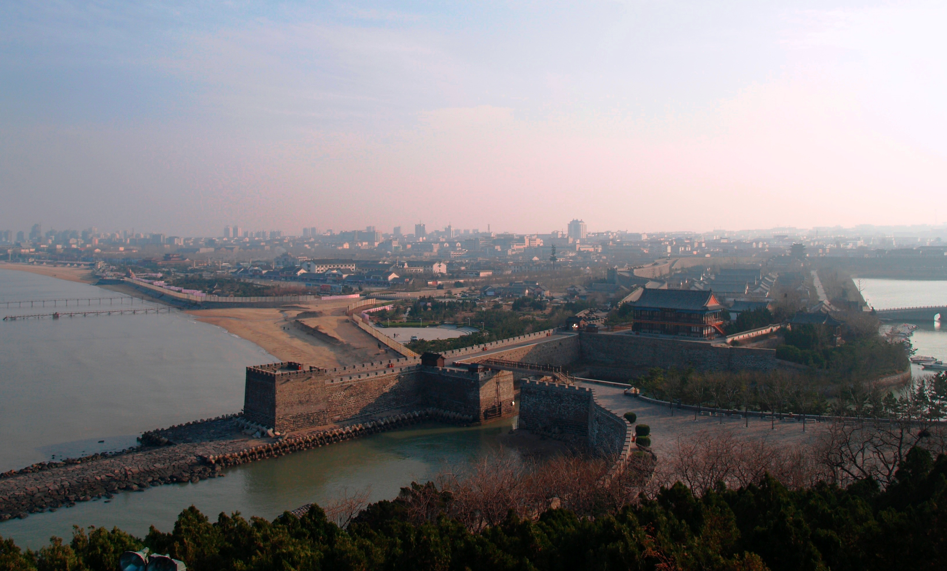 View of Penglai City from the Penglai Pavillion